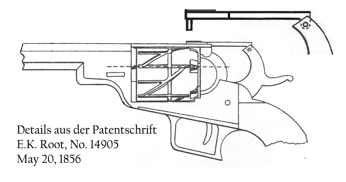 Colt Roots Patent